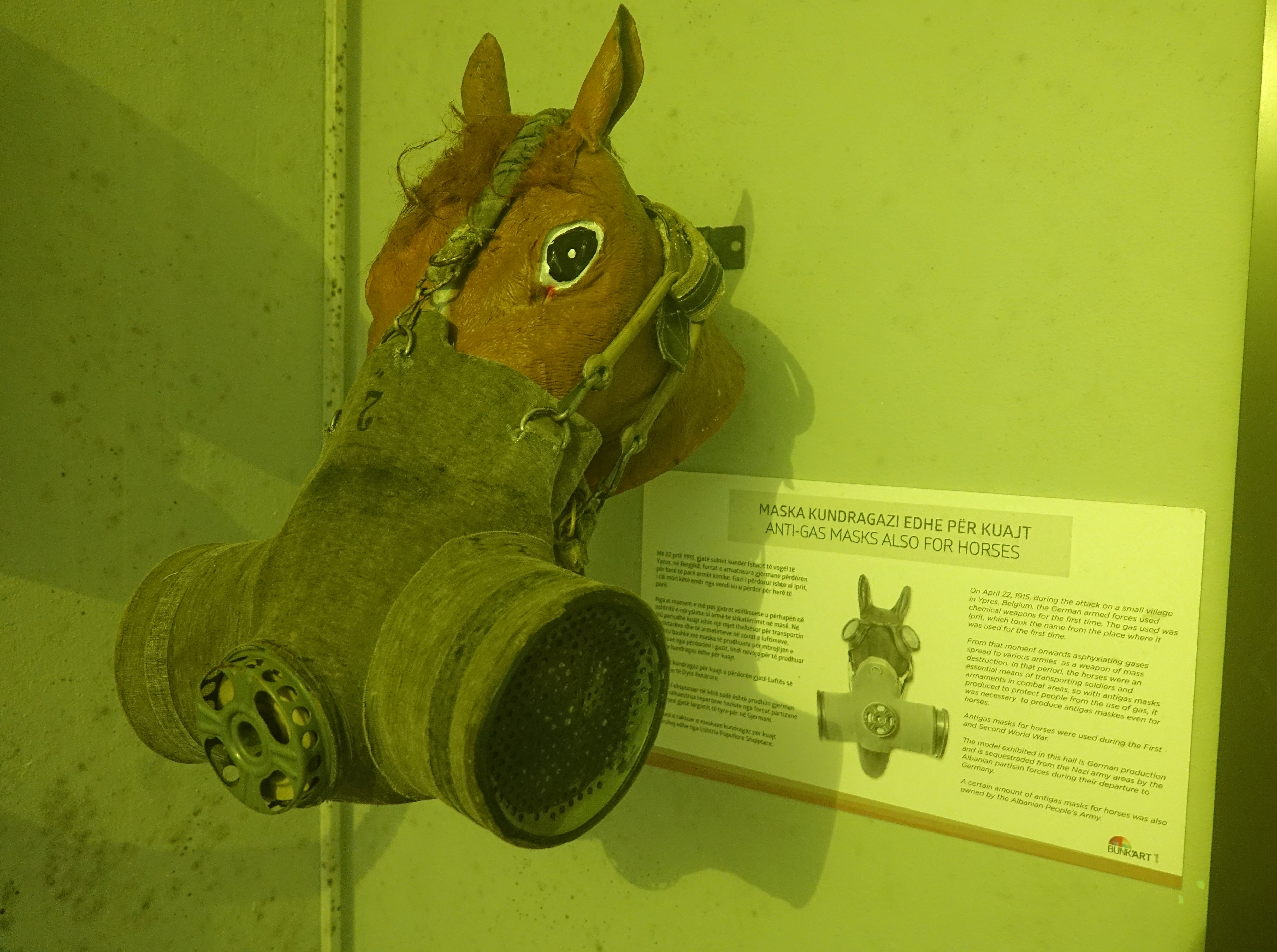 Display of gas mask for horses, used in the First World War. Photographed at the Bunk'Art Museum outside, Tirana, Albania.